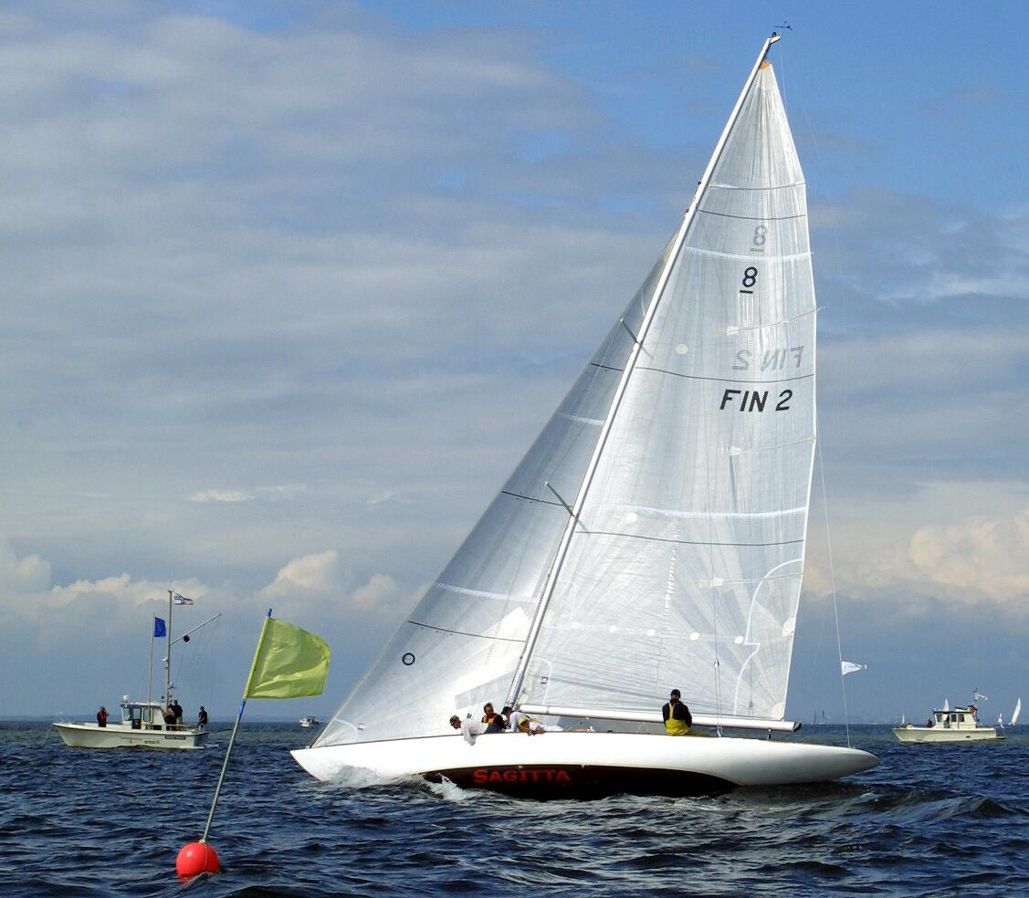 Classic yacht 8mR Sagitta racing in 8mR World Cup in Helsinki.